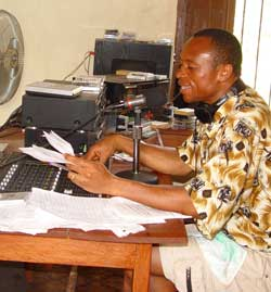 Radio newsreader in Sierra Leone.